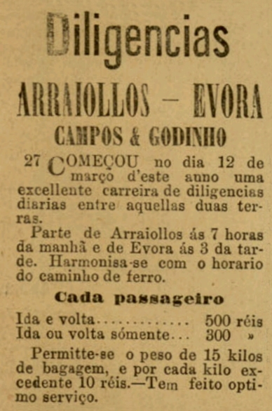 Advertisement of the Campos & Godinho company, for a stagecoach service between Arraiolos and Évora, in Portugal. This image was published on the Diario Illustrado newspaper No. 2831, of 1st April 1881, and scanned by the Biblioteca Nacional de Portugal.